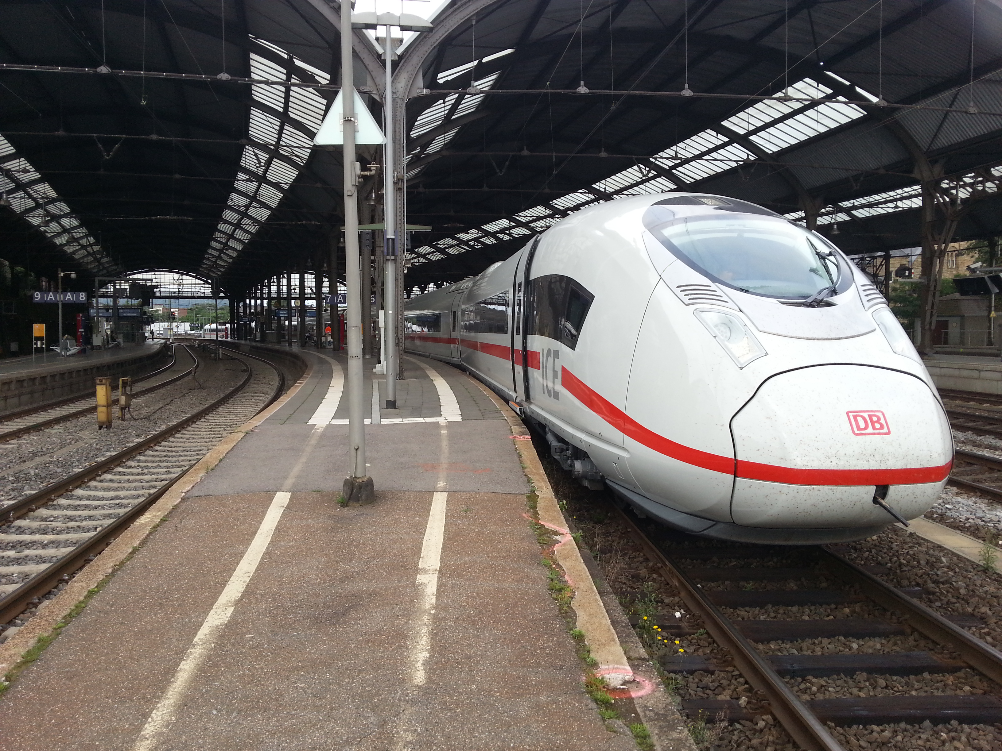 Aachen Central Station with Velaro D at platform 6